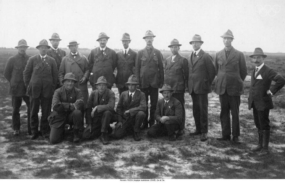 Antwerp 1920-The Swedish team (SWE) 2nd and 3rd